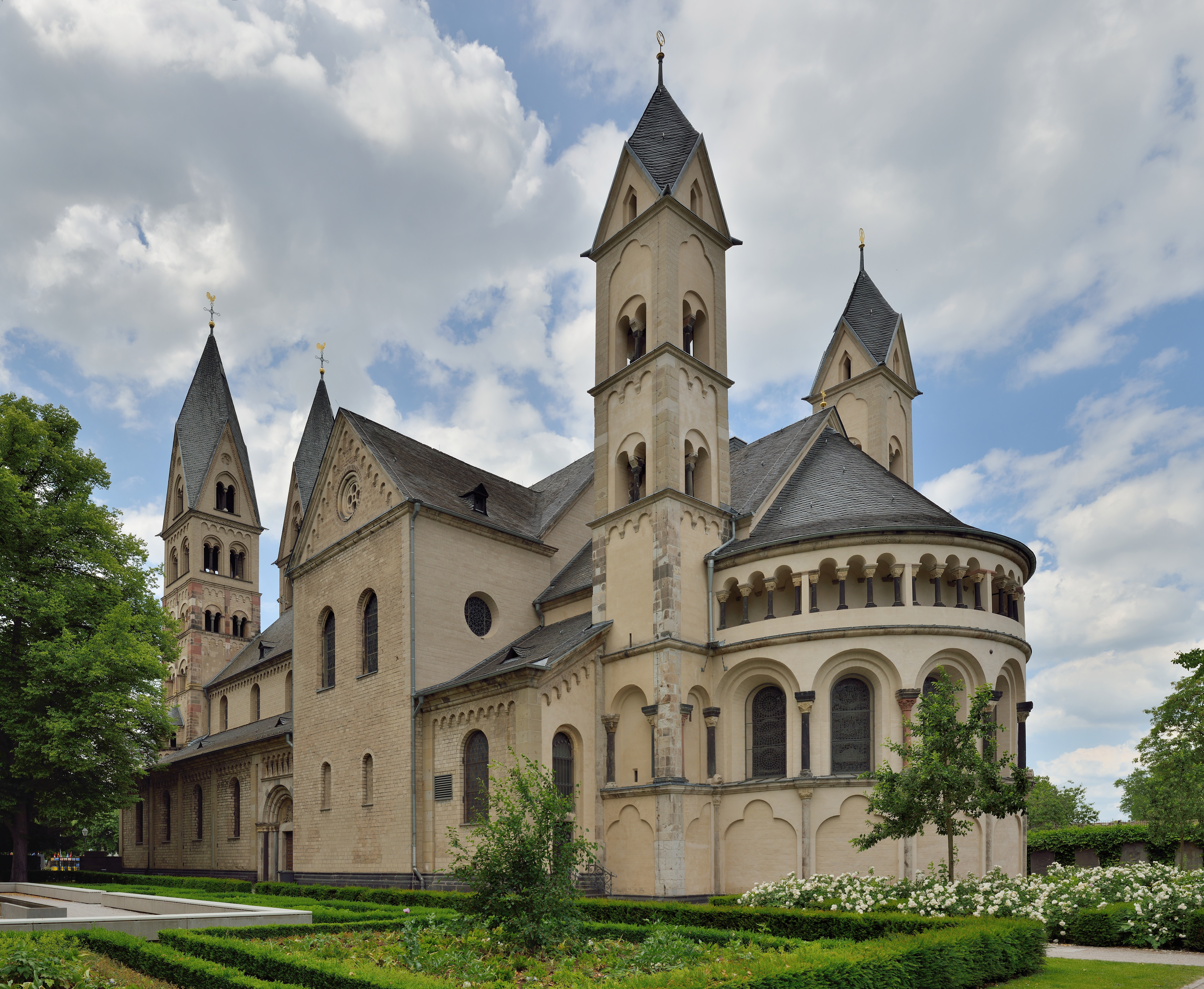 St Castor, Koblenz